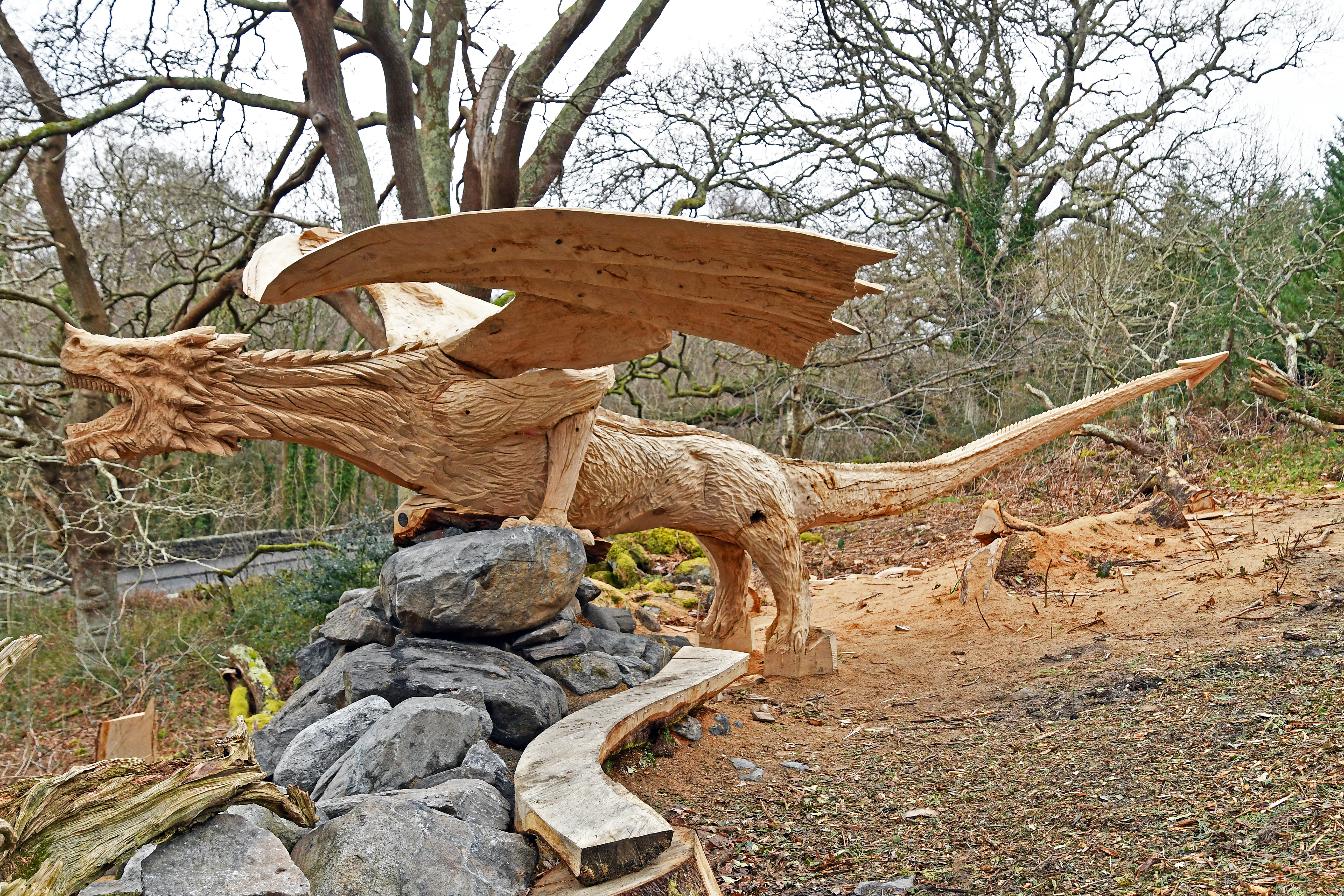 Guarding the A5 near Bethesda.Magnificent Dragon. Y Ddraig Derw...The Oak Dragon.It was commissioned by GP Dr Alofs. Wrexham artist Simon O'Rourke took about 6 days to create his sculpture with his chainsaw and various tools,the sculpture is about 12 foot long and about 6 foot tall.The oak tree had fallen down in the strong wind.